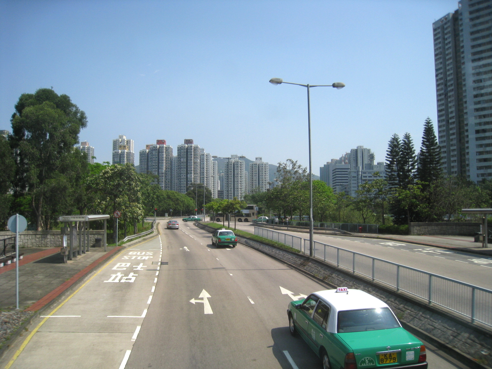 Nam Wan Road